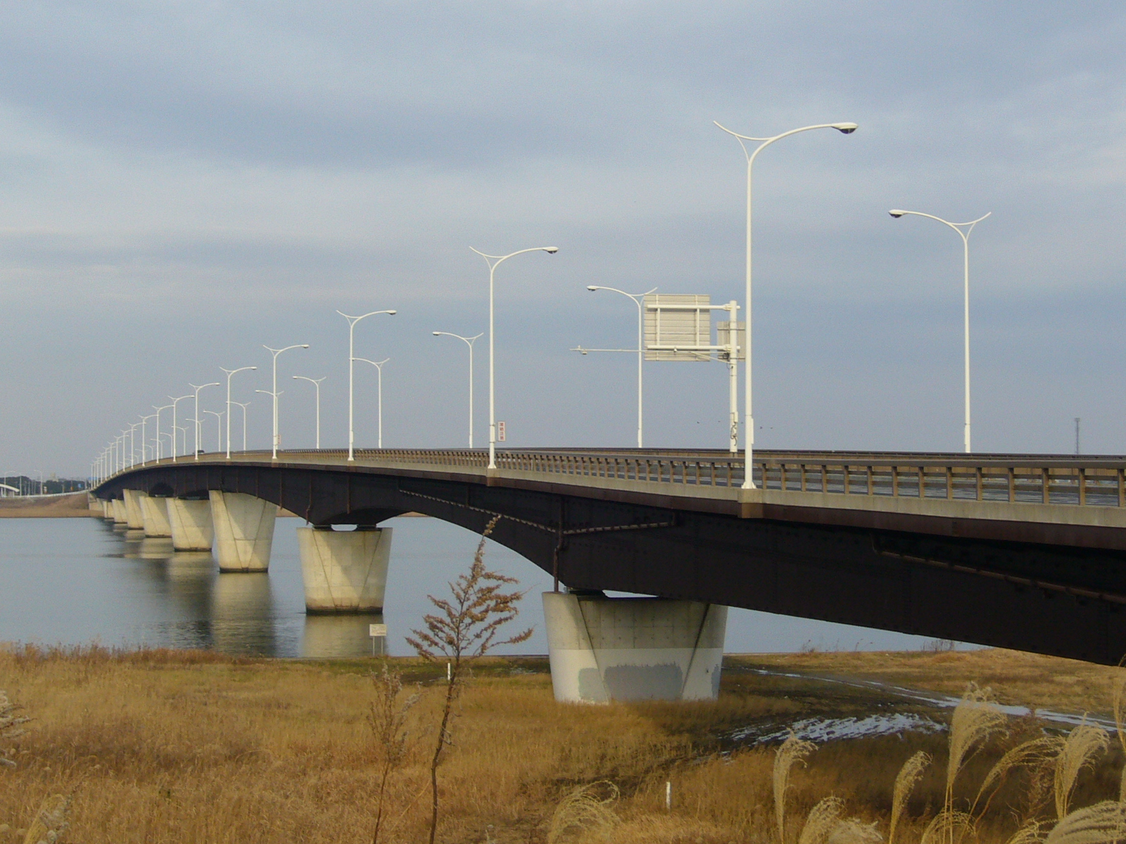 Tone-sea mew-bidge,Tone kamome ohashi,choshi-city,japan